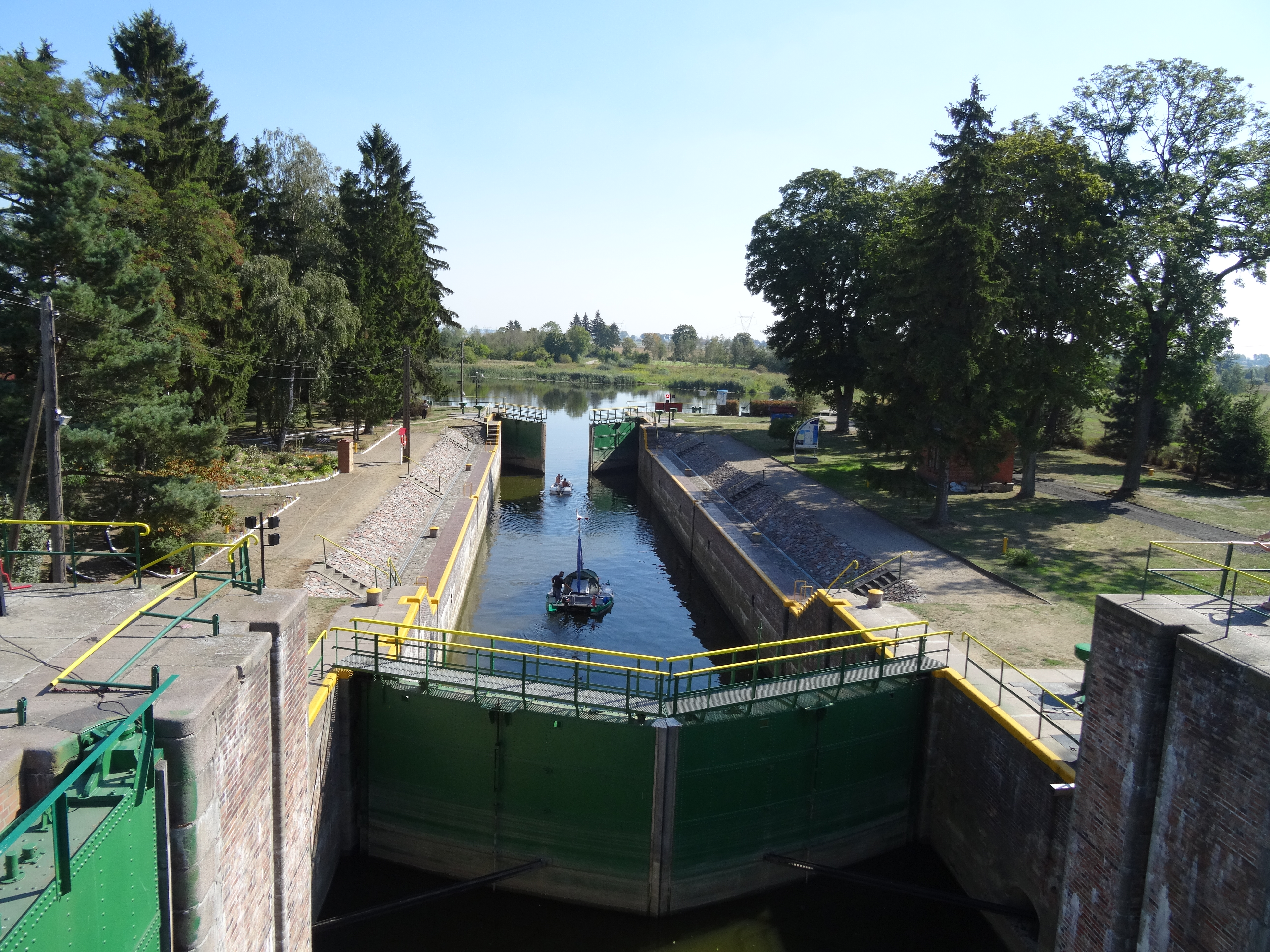 The Gdanska Glowa floodgate, 1895